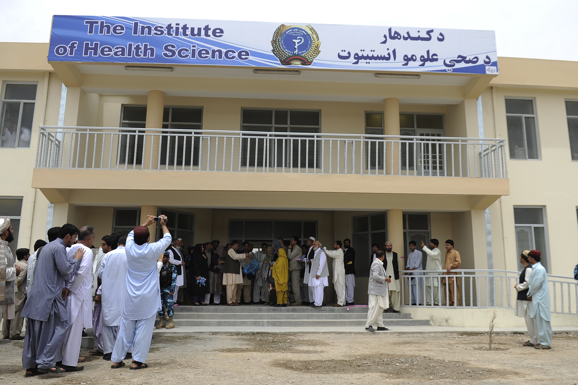 Attendees to the opening ceremony of the Kandahar Nursing and Midwifery Institute participate in the ribbon cutting May 9, 2012 in Kandahar, Afghanistan. The Kandahar Nursing and Midwifery will be able to train up to 800 students, both male and female, a year in nursing, midwifery, pharmacy, lab and dental services. (Photo ID: 577810)